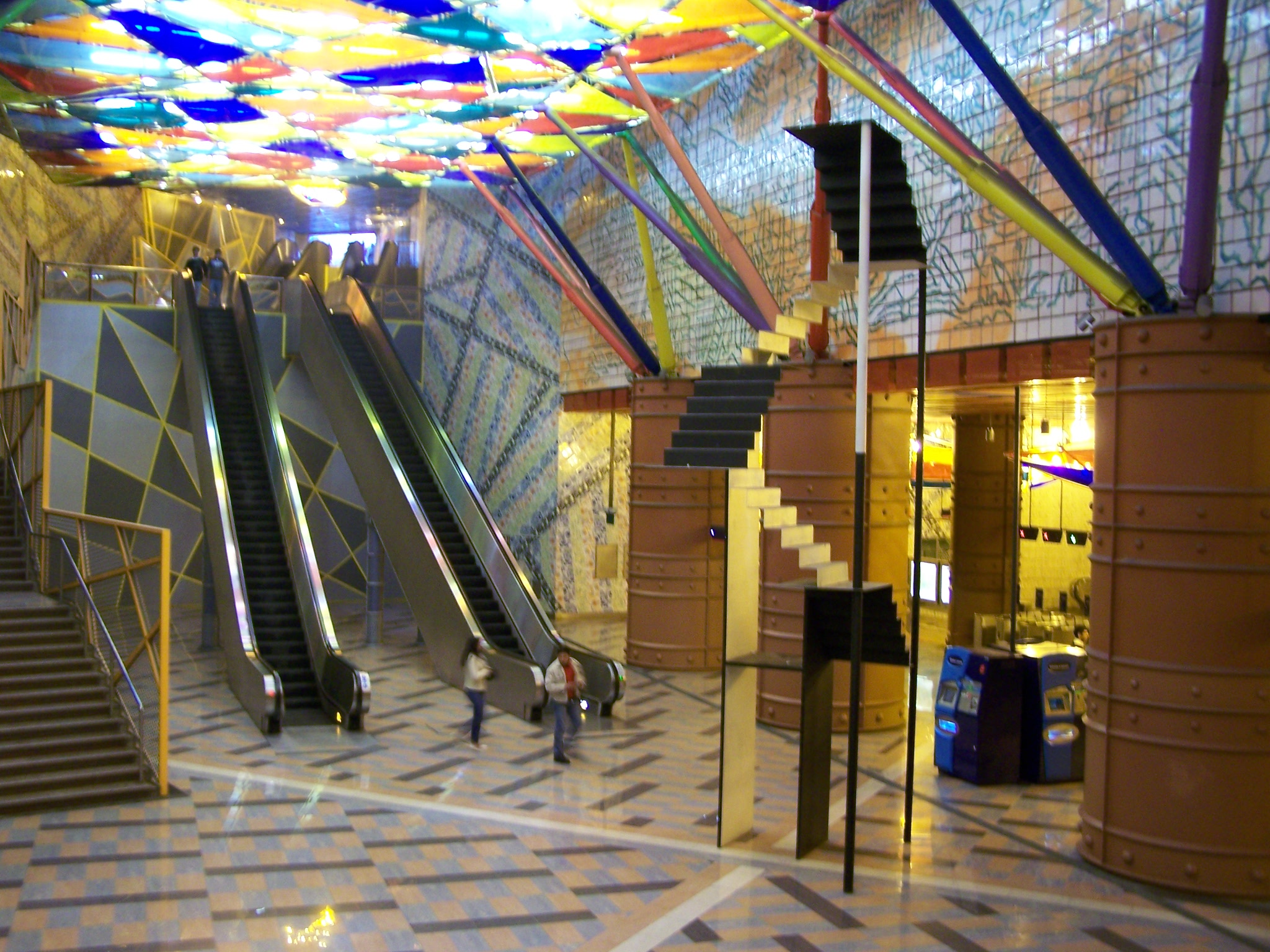 Main hall of Lisbon's metro station Olaias, Lisbon, Portugal